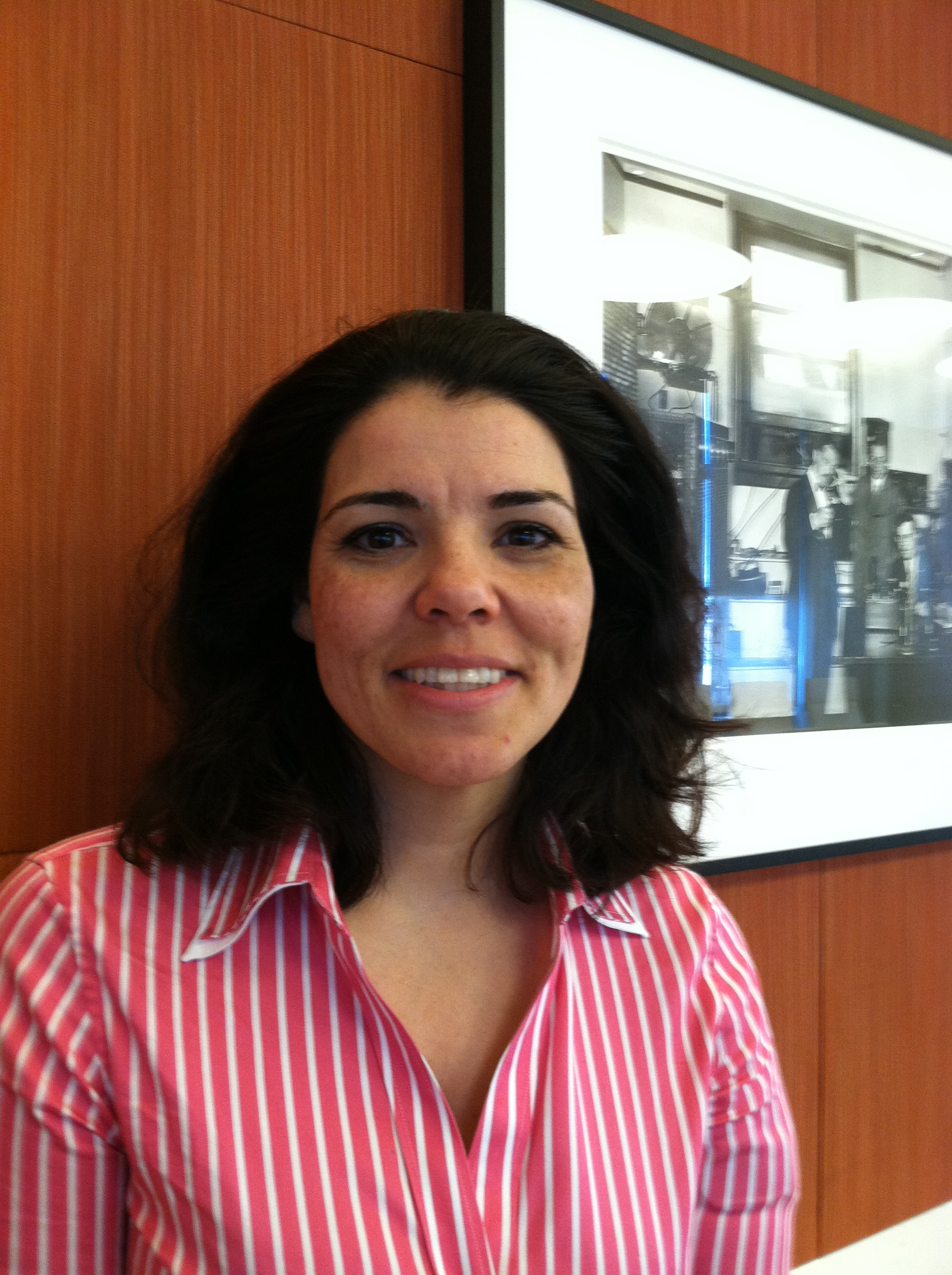 New York Public Radio, April, 2012